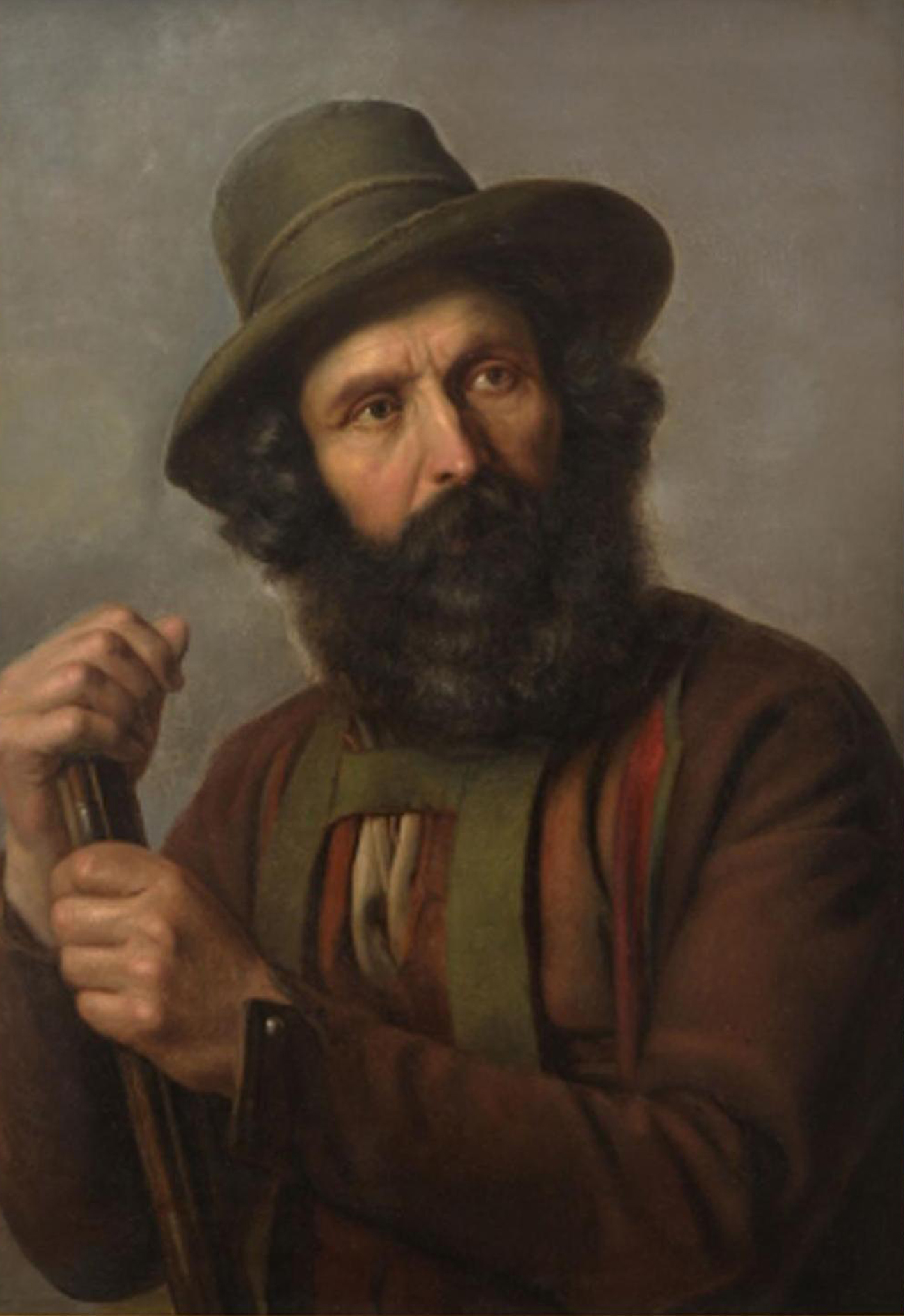 Julie Hagen-Schwarz. Portrait